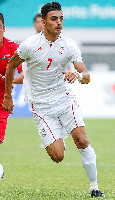 Younes Delfi playing for Iran U23 at Asian Games